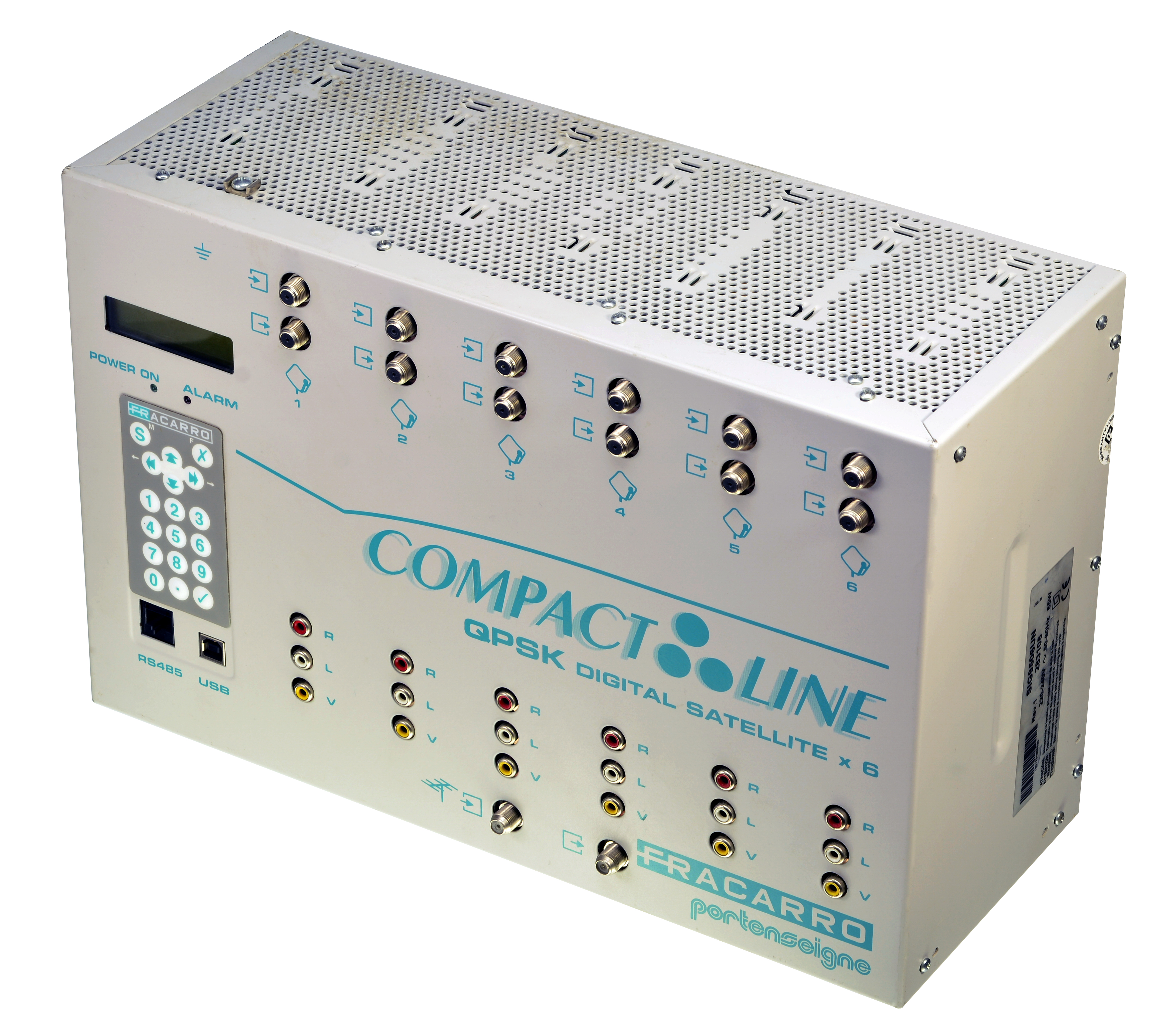 The Fracarro Portenseigne Compact Line Headend from 2006. This is the QPSK Digital Satellite x6 version, with mono audio option, model number SIG9506UN. It is part of the Compact Line series started by Philips SMATV division, which was bought by Fracarro in May 2002. A know price point comes from the 2007/2008 Fracarro Portugal price chart, which listed this item at 2310.00€.